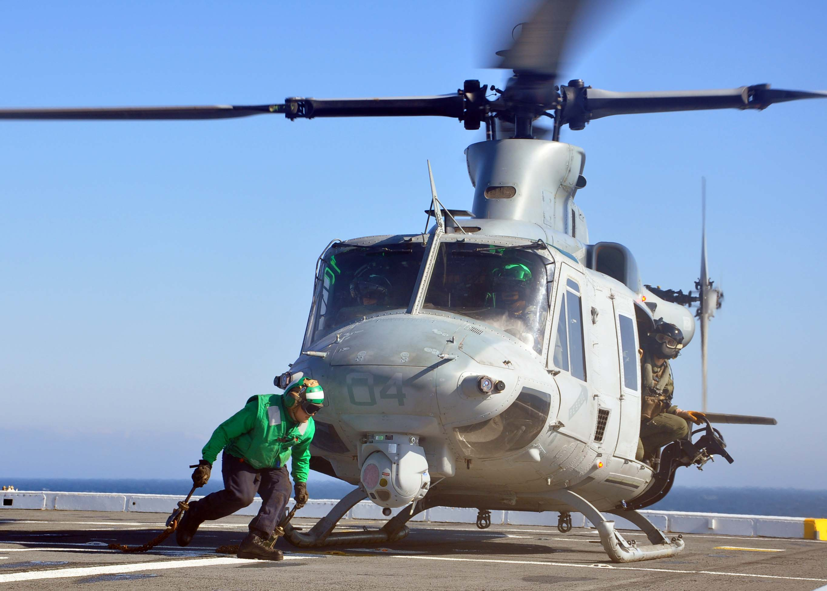 ATLANTIC OCEAN (Feb 2, 2012) Aviation Support Equipment Technician Airman Apprentice Robwil Valderreylabrador secures a UH-1Y Huey helicopter from Marine Light Attack Helicopter Squadron (HMLA) 167 on the flight deck of the amphibious transport dock ship USS San Antonio (LPD-17) during Bold Alligator 2012. Bold Alligator is the largest naval amphibious exercise in the past 10 years and represents the Navy and Marine Corps' revitalization of the full range of amphibious operations. The exercise focuses on today's fight with today's forces, while showcasing the advantages of seabasing. The exercise will take place Jan. 30 through Feb. 12, 2012, afloat and ashore in and around Virginia and North Carolina. (U.S. Navy photo by Mass Communication Specialist 1st Class Edwin F. Bryan/Released)